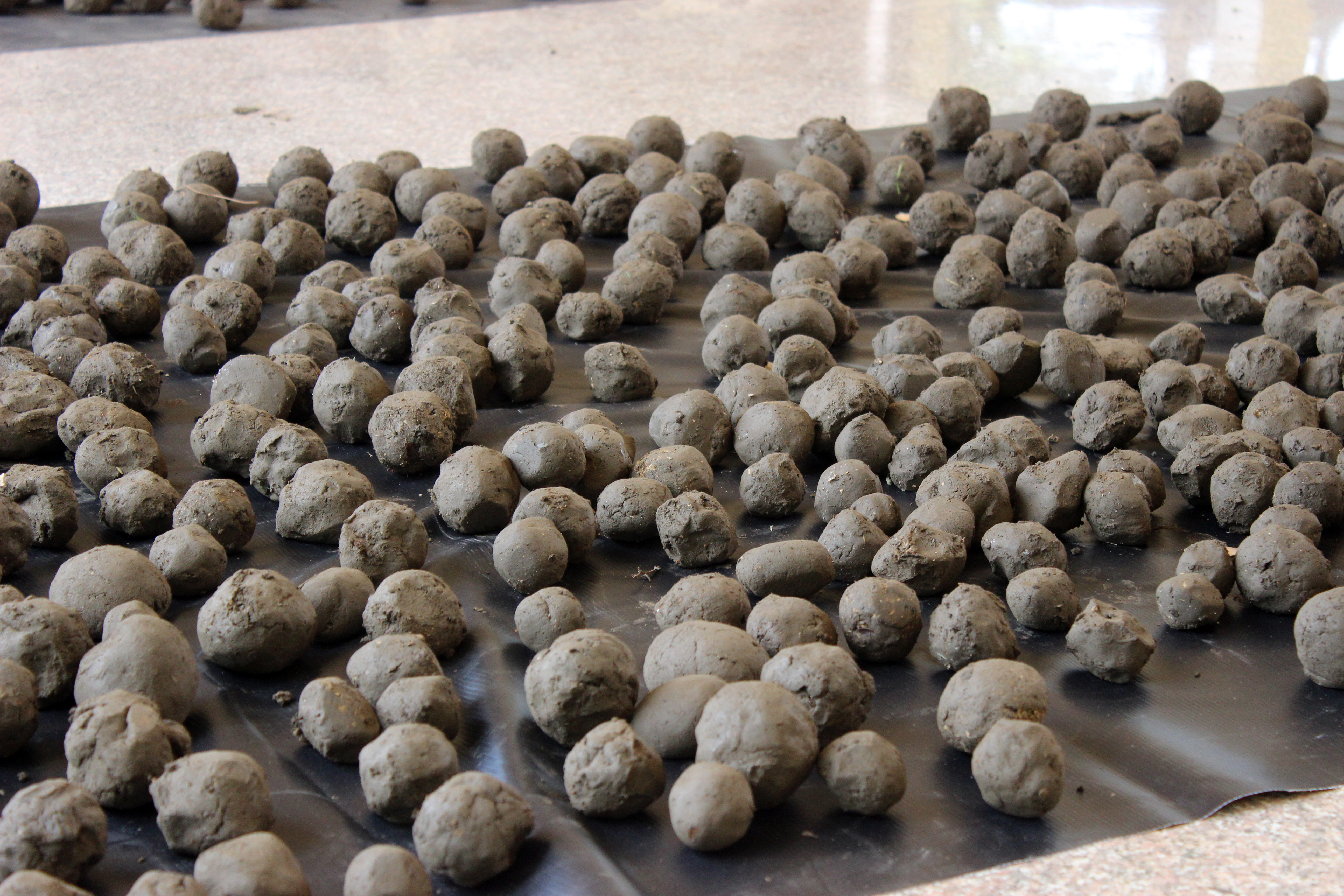 Activities for making Mud Seed ball in Bhopal